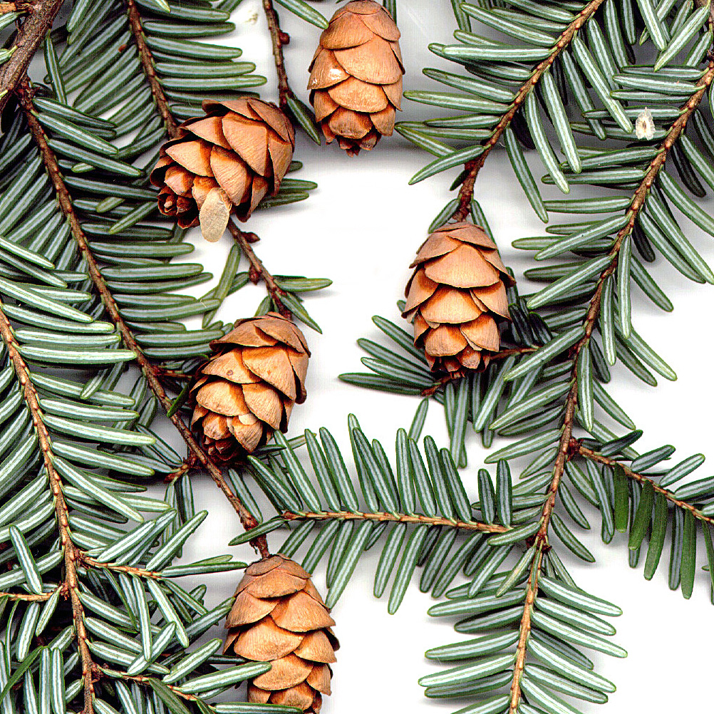 Tsuga canadensis half opened cones